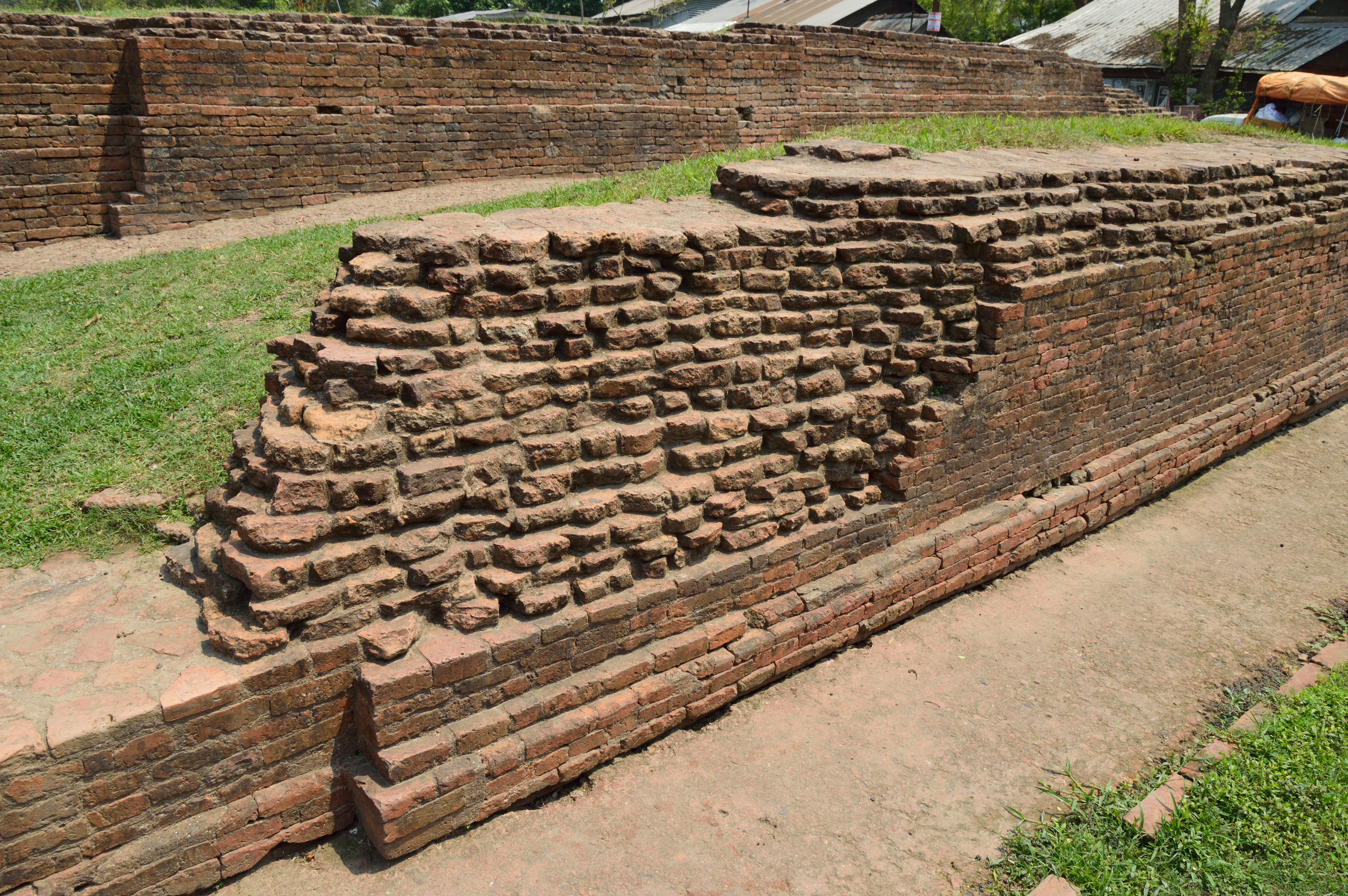 Khana-Mihir Mound (Khana-mihirer Dhipi, hi. Khana-mihir ka tila) also known as (Barahamihirer Dhipi) forms part of huge fortified township named Chandraketugarh. It was first excavated by the Asutosh Museum of Calcutta University in 1956-57 revealing a continuous sequence of cultural remins from 11th century BC pre-mouryan period of 12th century AD Pala period. The most remarcable discovery of the excavation is a polygonal brick temple facing north. This temple has projections on three sides and it is connected with a square vestibule. This temple which was earlier thought to be of Gupta period infact belongs to Pala period which is presumed by its plan adchitecture and decorative designs. The excavation has also unearthed Buddha image, votive stupas, terracotta plaques depicting Buddha and Jataka stories. Coins, terracotta sealing and different types of beads of early historical and historical periods.